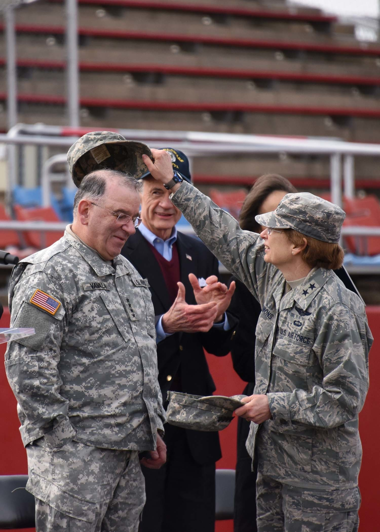 DOVER, Del.- Delaware National Guard Adjutant General Carol A. Timmons removes a cap and replaces a new cap to signify the promotion of Frank Vavala to Four Star General on April 1, 2017. Vavala was promoted to this rank as a member of the Delaware State Militia. This prestigious accomplishment marks the first time that a general has achieved the rank of four stars in the state of Delaware. Gov. Carney and Delaware National Guard Adjutant General Carol A. Timmons pinned the four star rank insignia on Vavala. Distinguished guests including members of the State of Delaware Congress and Senate, and Delaware State University Leadership were in attendance. (U.S. Air National Guard photo by Tech. Sgt. Gwendolyn Blakley/ Released).